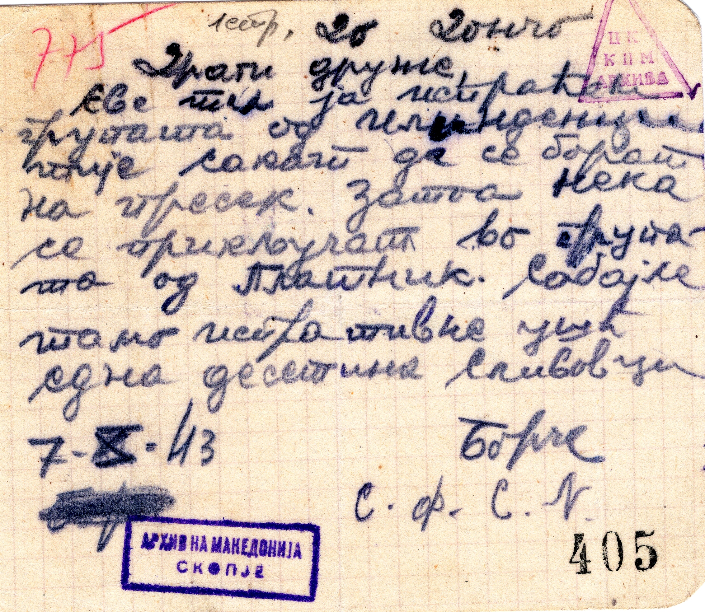 A letter by Naum Naumovski Borce sent to Donco, Commander of the HQ of Macedonia, stating that he is sending Ilinden fighters to join the battle against the enemiest, 7 October 1943. This media file is produced by Wikipedian in Residence in Category:Wikipedian in Residence at DARM in 2017.